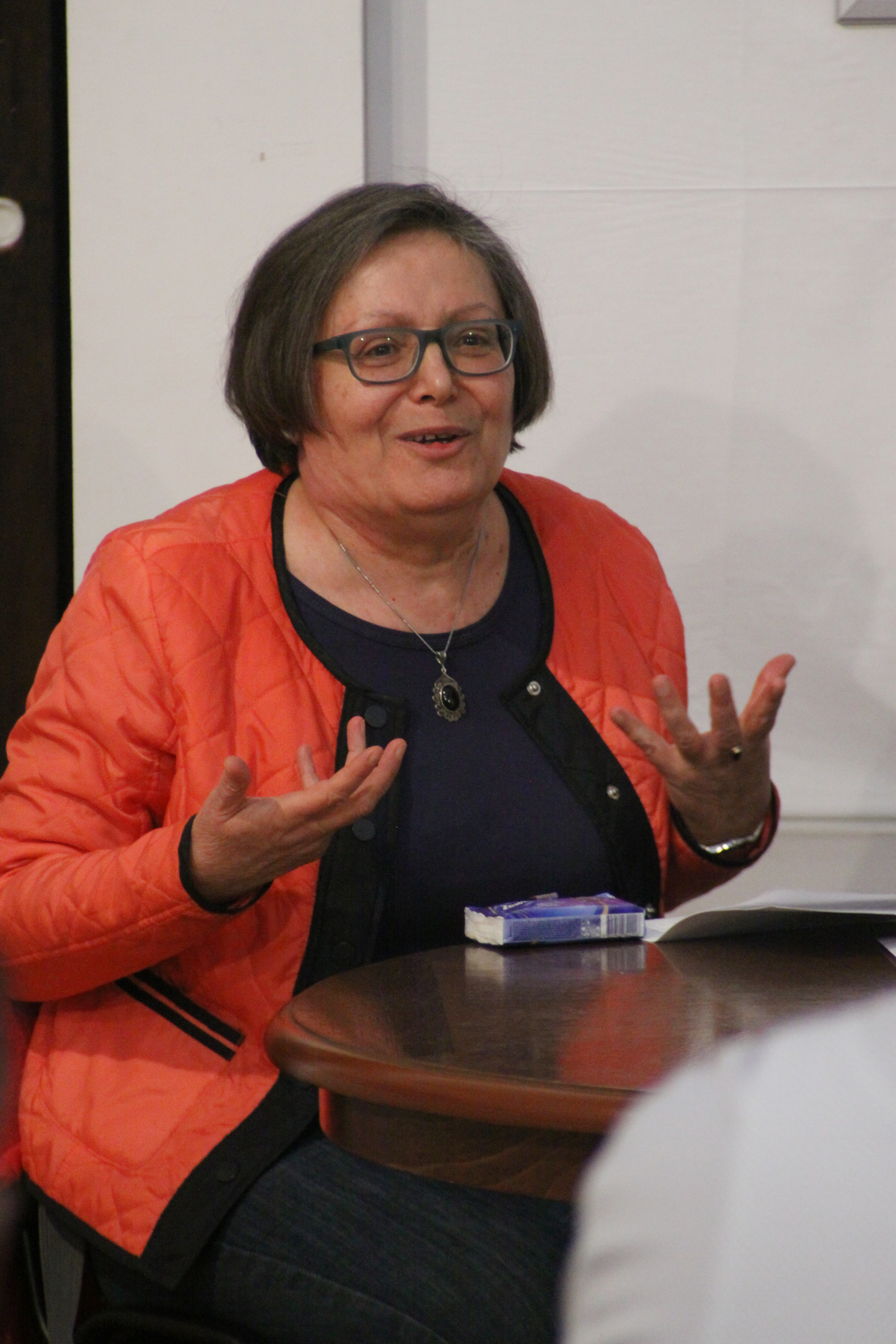 Slavic and Serbian fantasy cycle, University library, Belgrade, Serbia, Ljiljana Pešikan Ljuštanović, professor at Faculty of Philosophy, Novi Sad, Serbia. Srpski (latinica): Ciklus "Slovenska i srpska fantastika", Univerzitetska biblioteka, Beograd, Srbija, Ljiljana Pešikan Ljuštanović, profesor Filološkog fakulteta Univerziteta u Novom Sadu